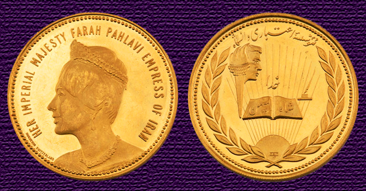 Commemorative Gold Coin of Farah Pahlavi, Minted by the University Credit Association. Photo from Personal collection.